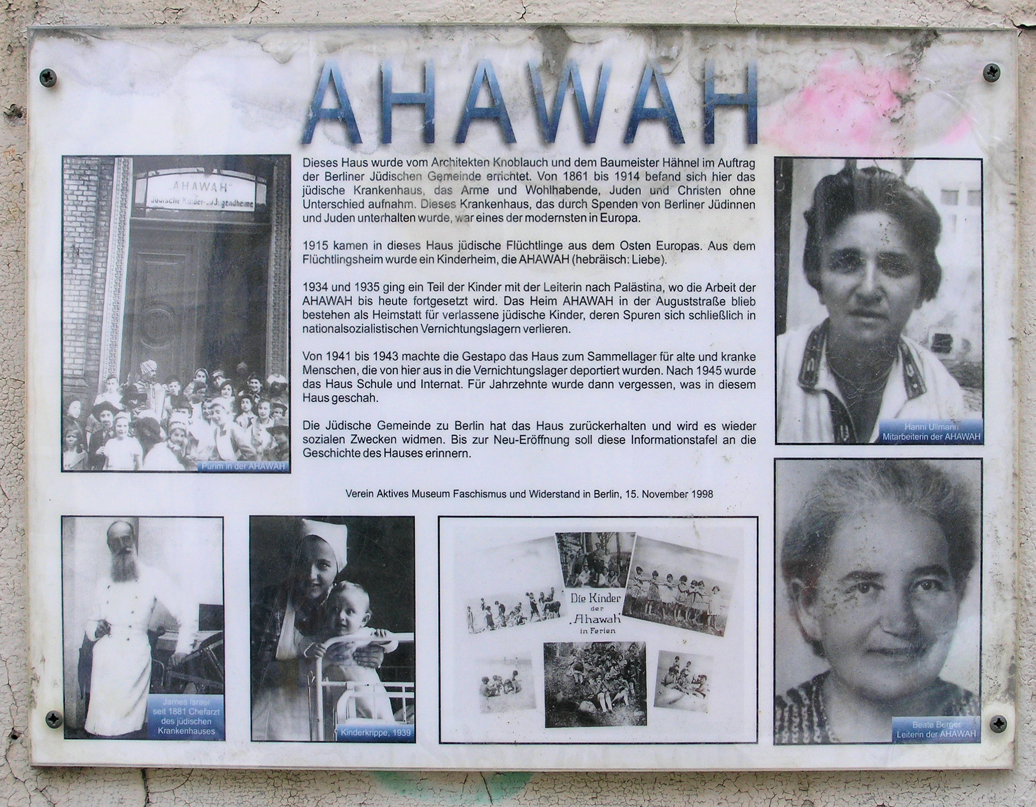 Memorial plaque, Jüdisches Krankenhaus Ahawa, Auguststraße 14, Berlin-Mitte, Germany Koordinate:52°31′36″N 13°23′42″E / 52.52667°N 13.395°E